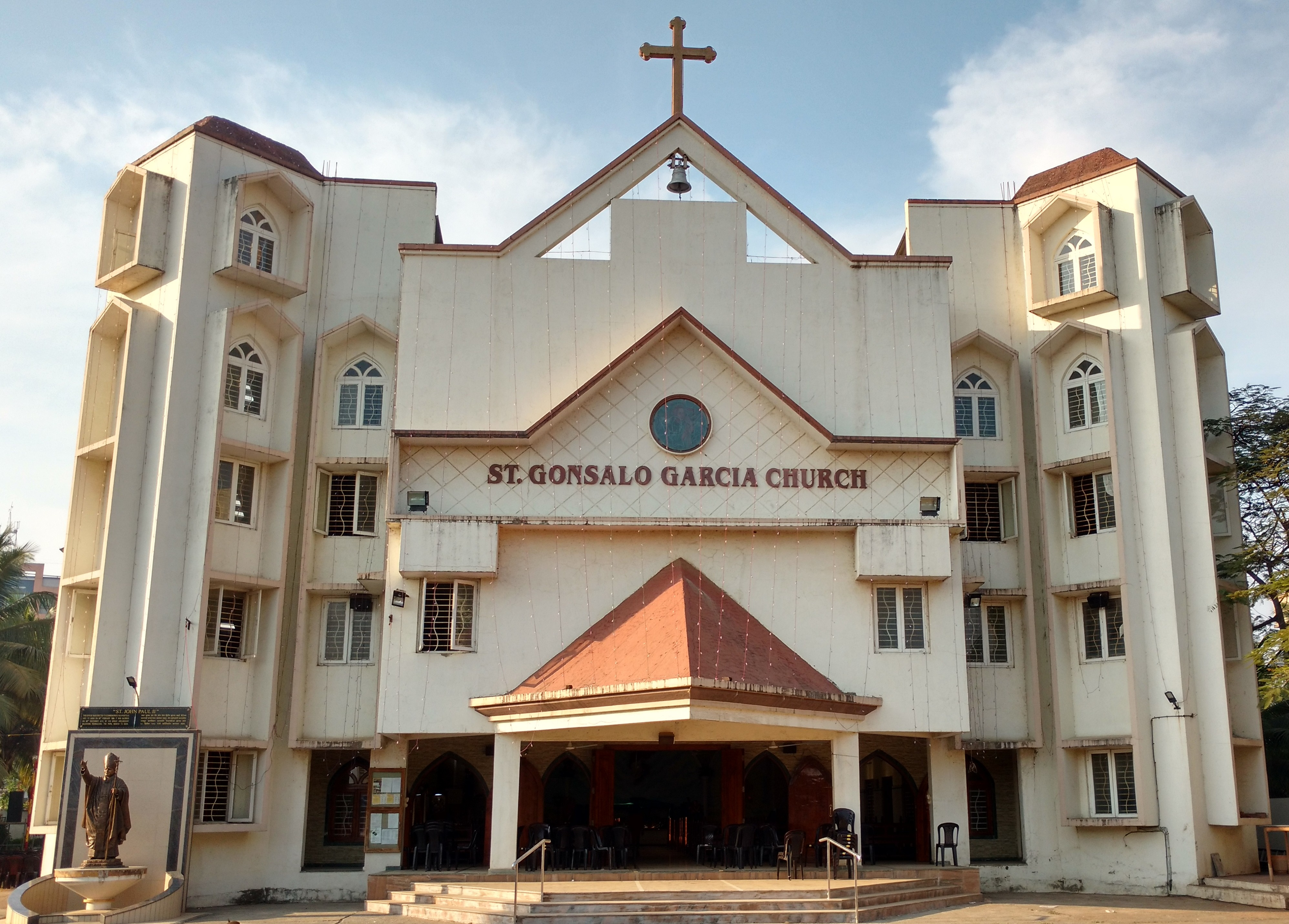 The St. Gonsalo Garcia Church is located in the township of Vasai, Palghar district, Maharashtra, India.